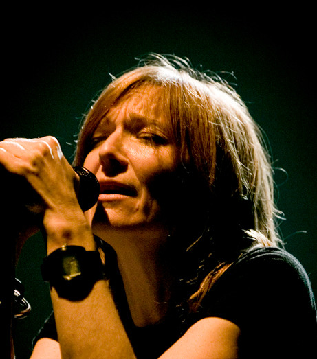 Beth Gibbons ; concert of Portishead